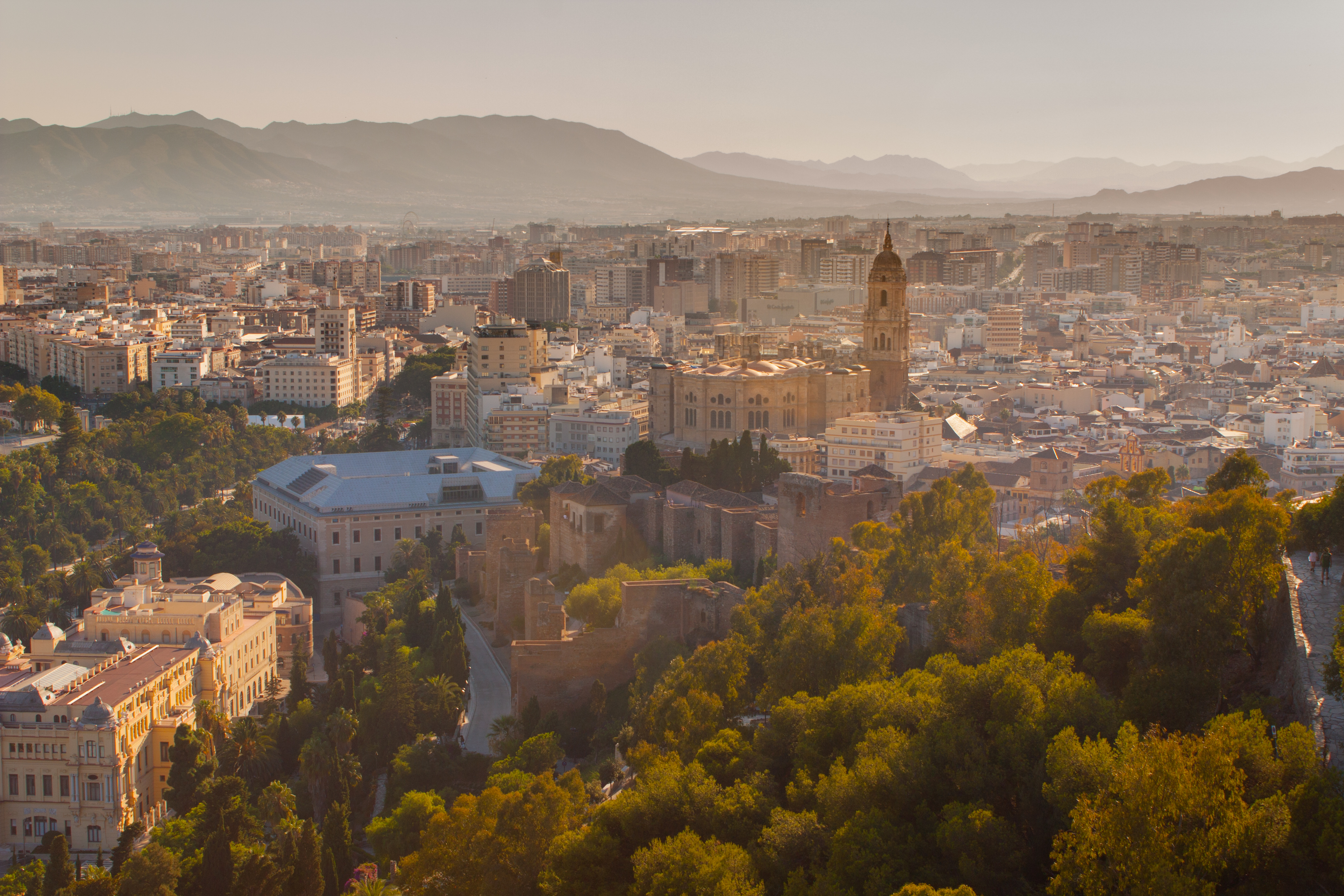 Málaga, Spain.